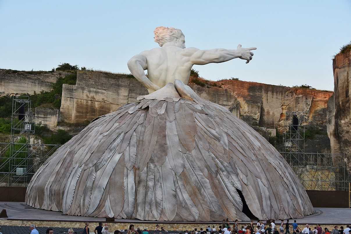 Tosca, Sankt Margarethen, 2015